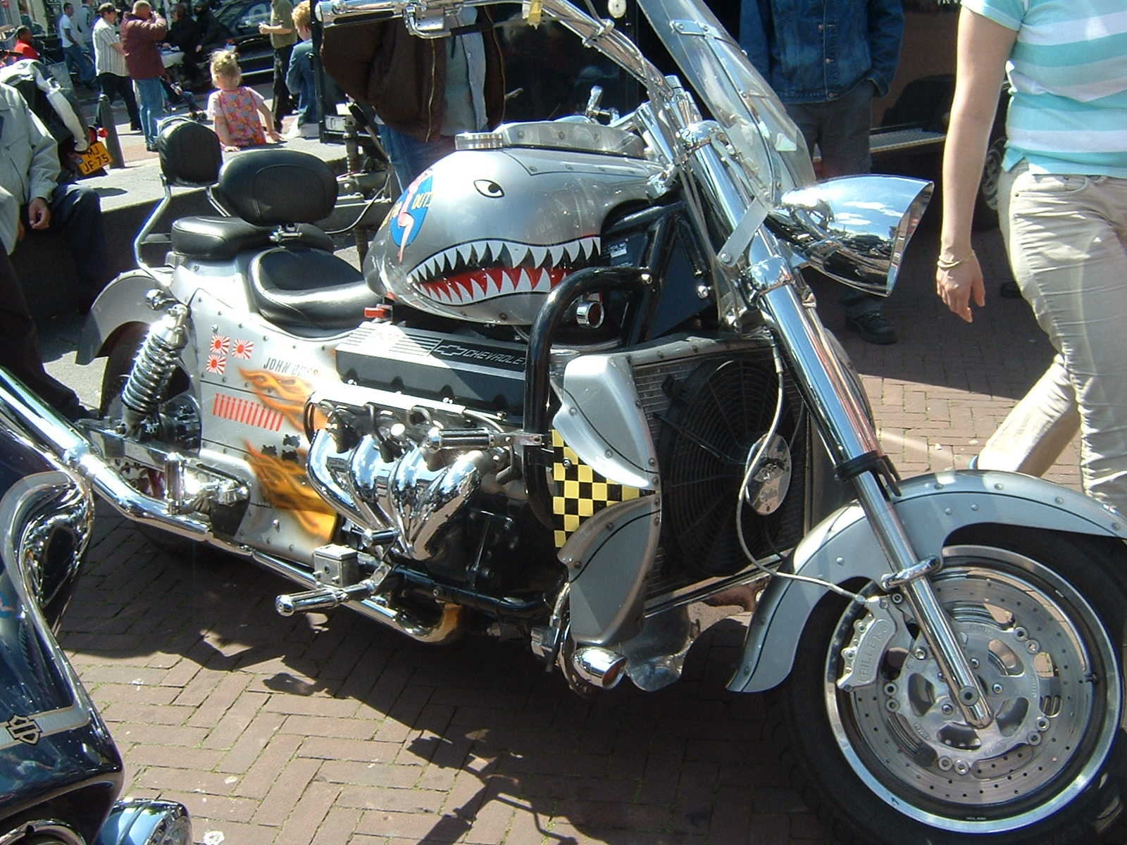 Boss Hoss motorcycle, photo taken at Harley-day in Arnhem (the Netherlands)